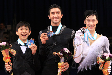 The men's podium at the 2009-20100 ISU Grand Prix Final. From left: Nobunari Oda (2nd), Evan Lysacek (1st), Johnny Weir (3rd).